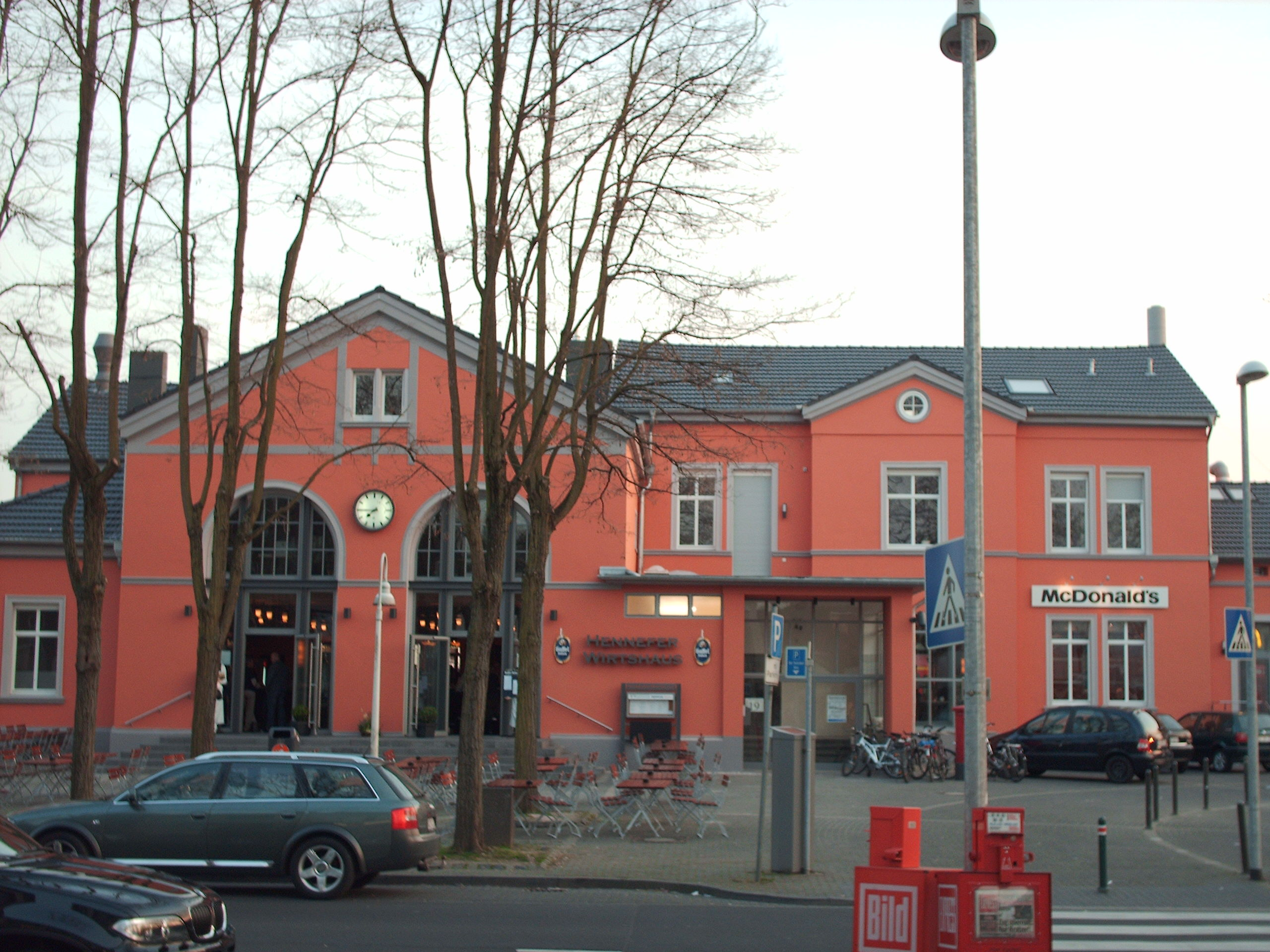 Hennef (Sieg) station, Hennef (Sieg), Germany check usage